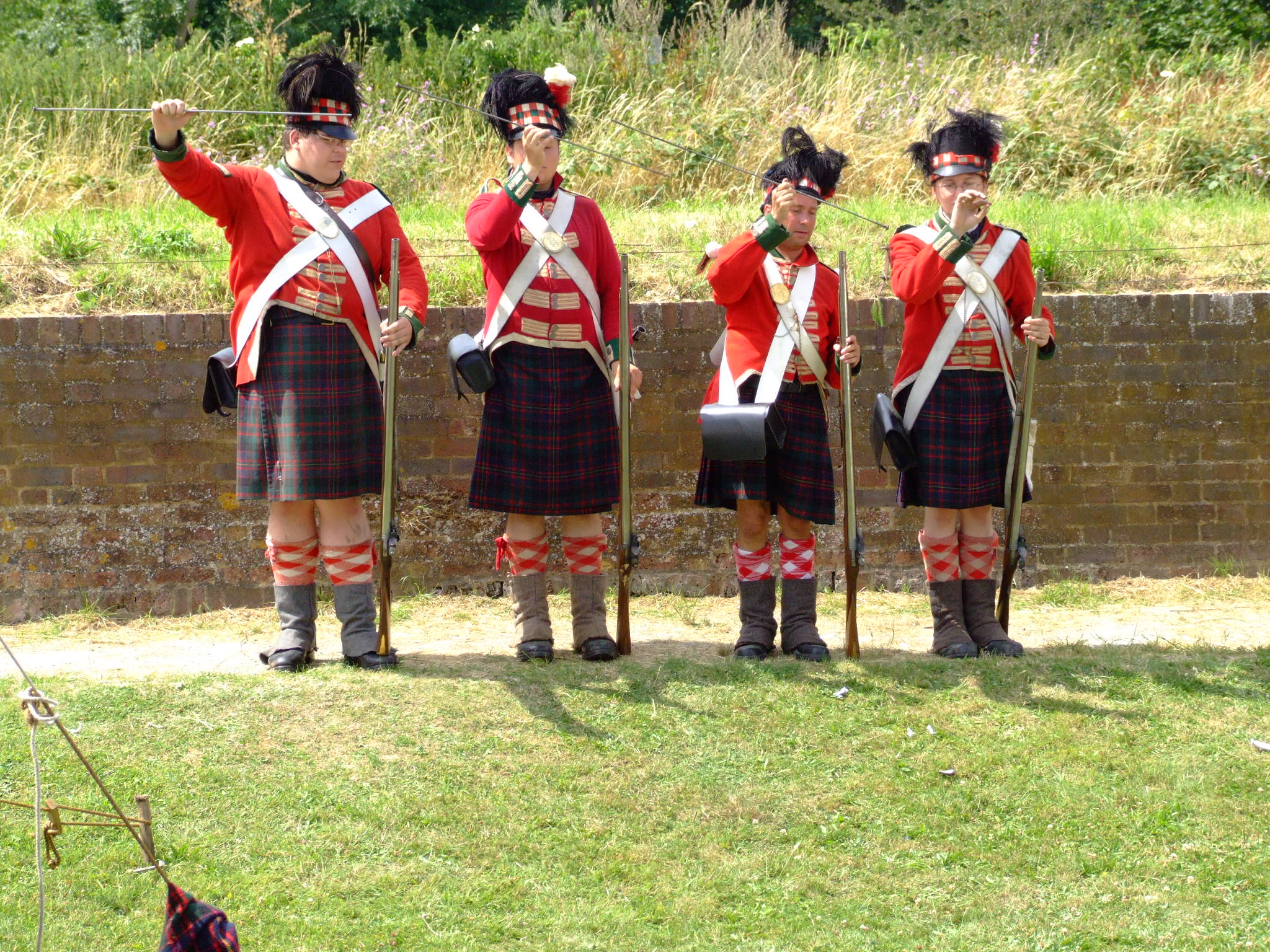 Fort Amherst defends Chatham Dockyard in Kent. Historical re-enactors representing a Highland regiment of foot. Ramming